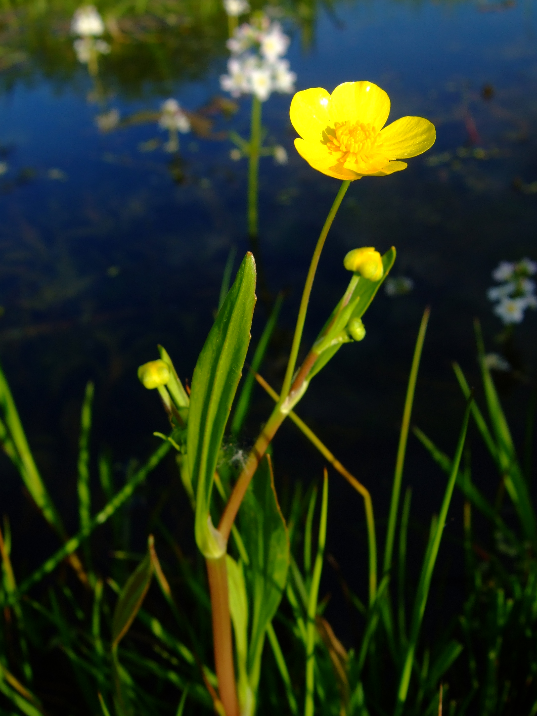 Lesser Spearwort in Kirchwerder, Hamburg